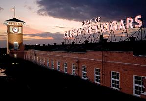 Exterior of Factory from Roof